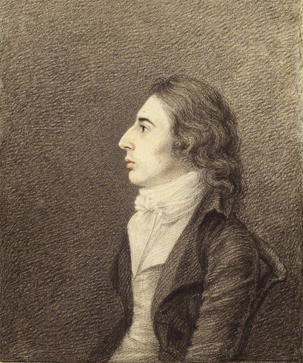 Portrait in chalk and pencil of Robert Southey (1774–1843), English poet.